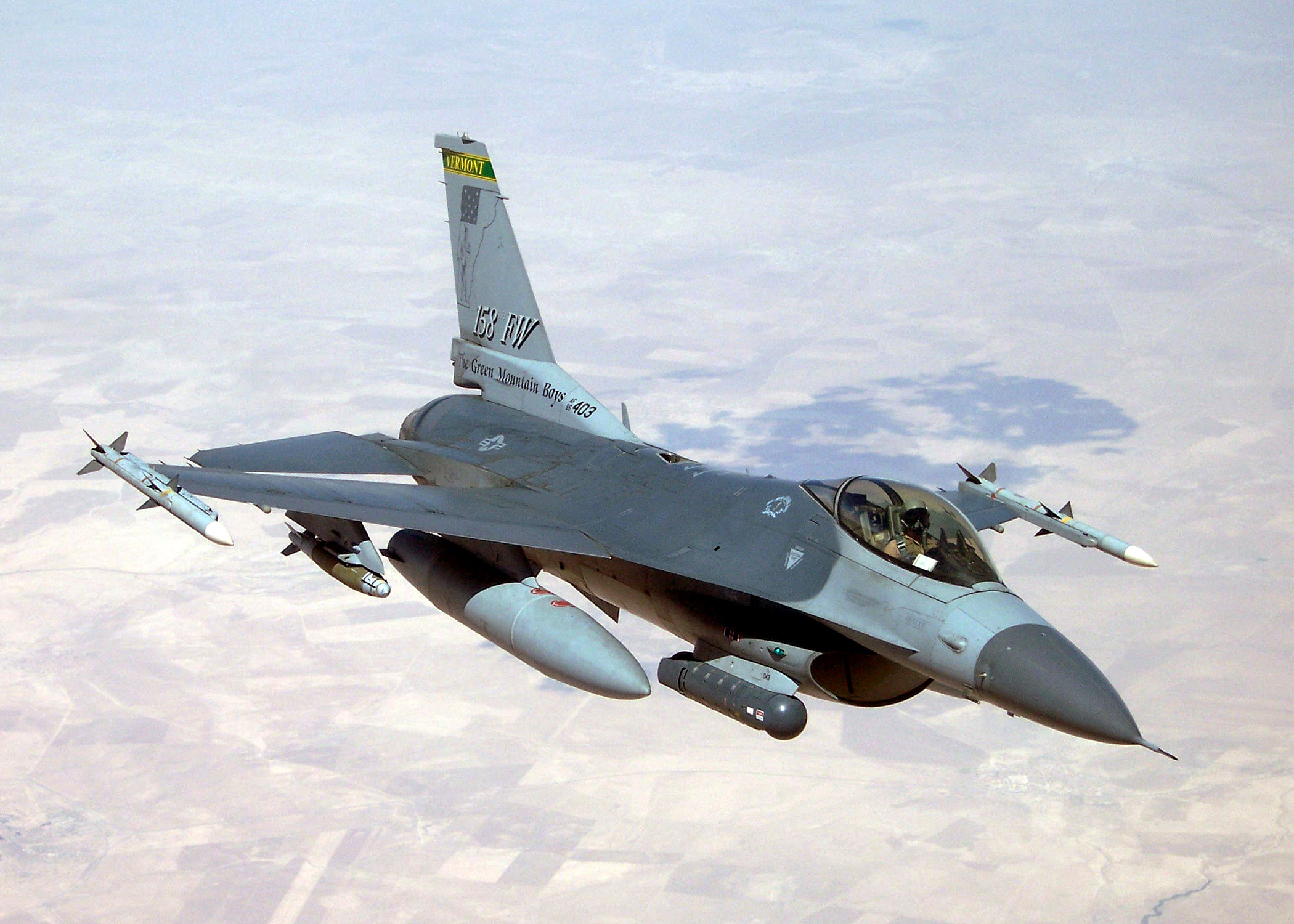 A U.S. Air Force General Dynamics F-16C Block 25F Fighting Falcon (s/n 85-1403) from the 134th Fighter Squadron, 158th Fighter Wing, Vermont Air National Guard, during a close air support mission over Iraq on 25 August 2007.